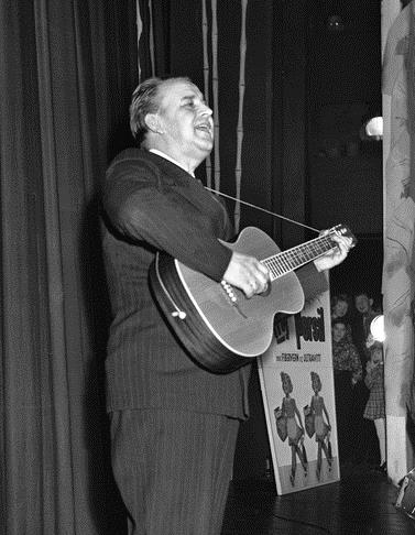 Norwegian author and artist Alf Prøysen on stage 1954. Chat Noir theatre, Oslo